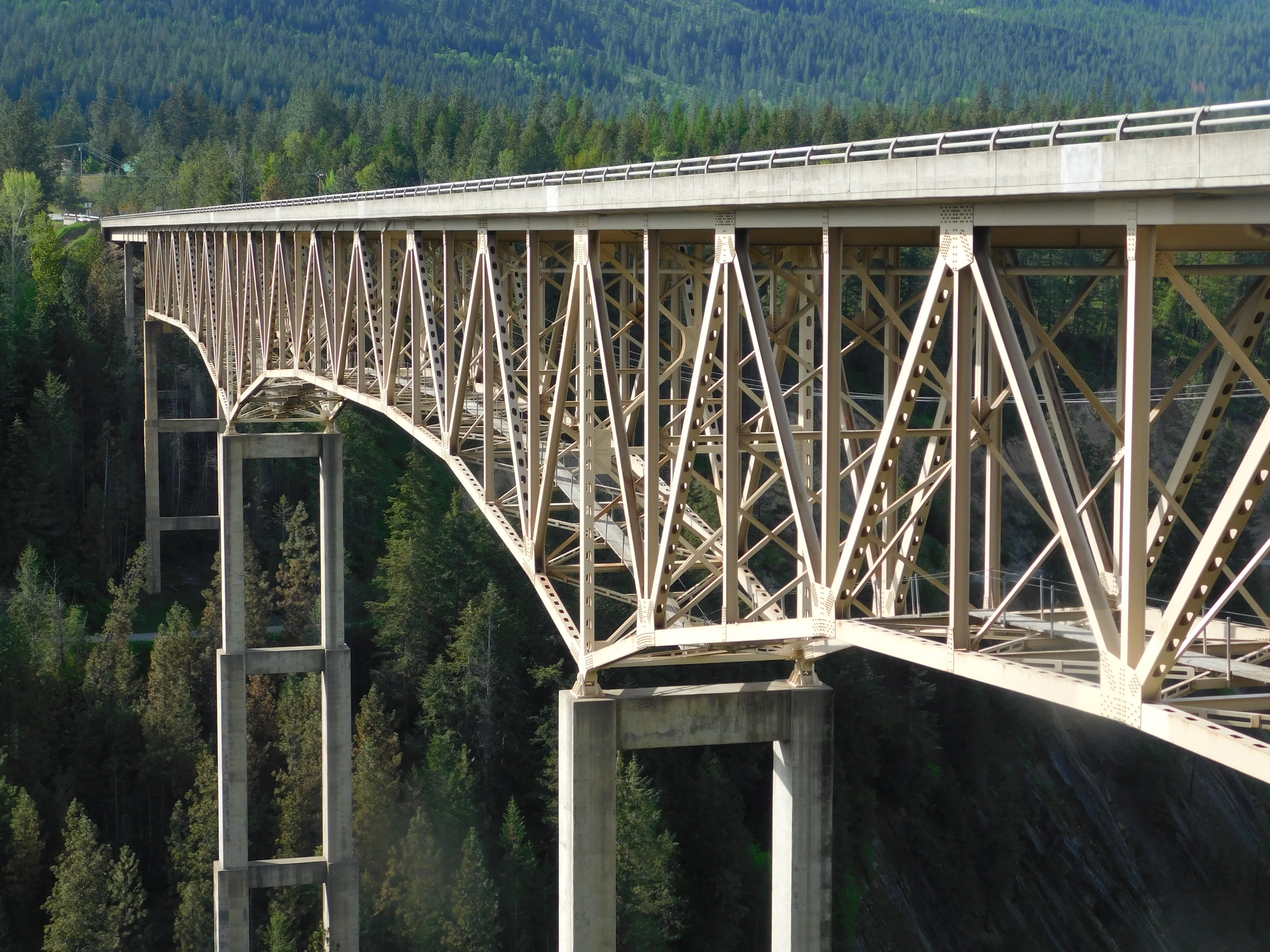 The viaduct over the Moyie River on U.S. Route 2 in Moyie Springs, Idaho.